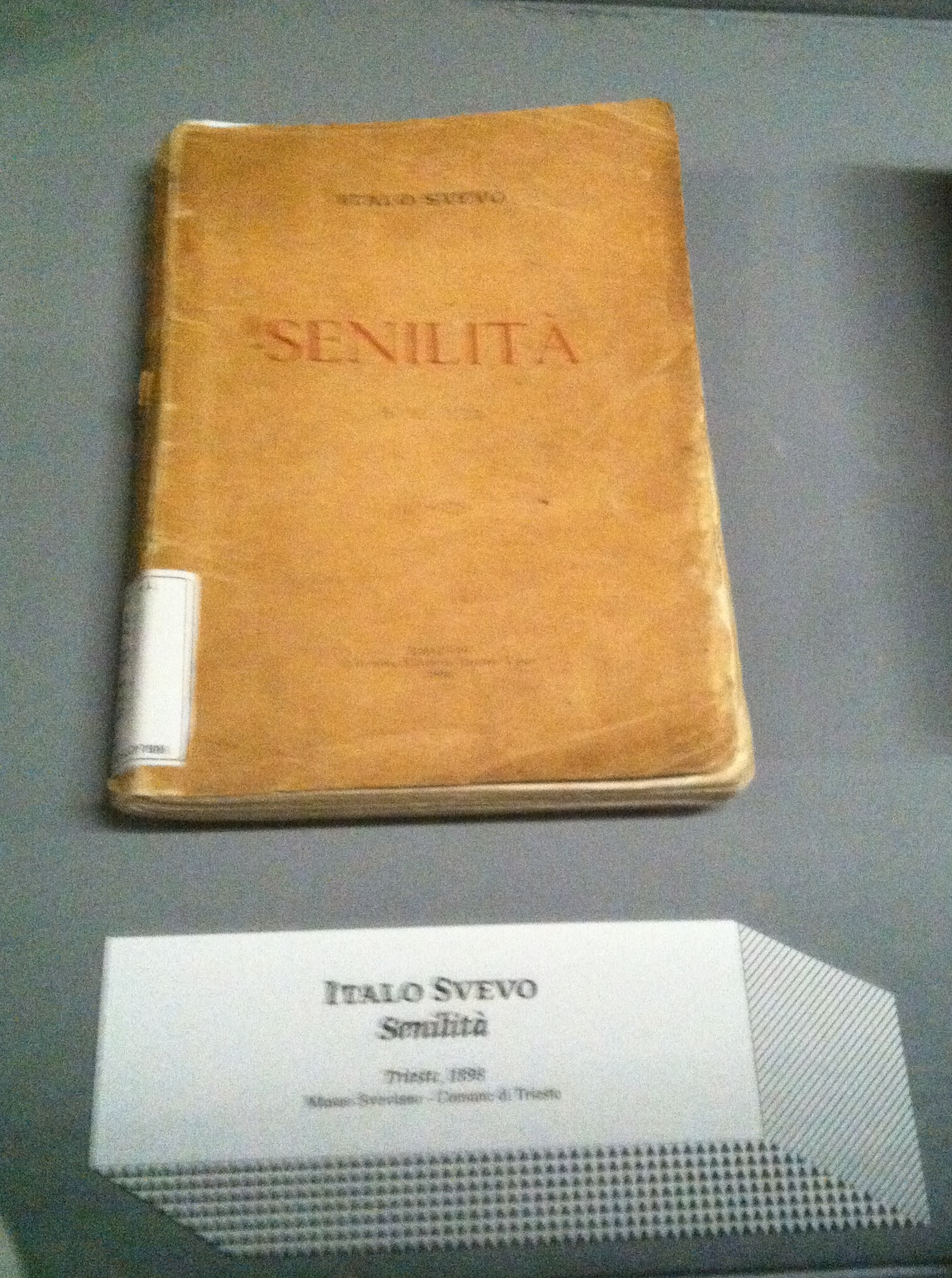 La Trieste de Magris. Exhibit about the Trieste of Claudio Magris, shown at CCCB during 2011 Italo Svevo 1st edition of the book Senilità